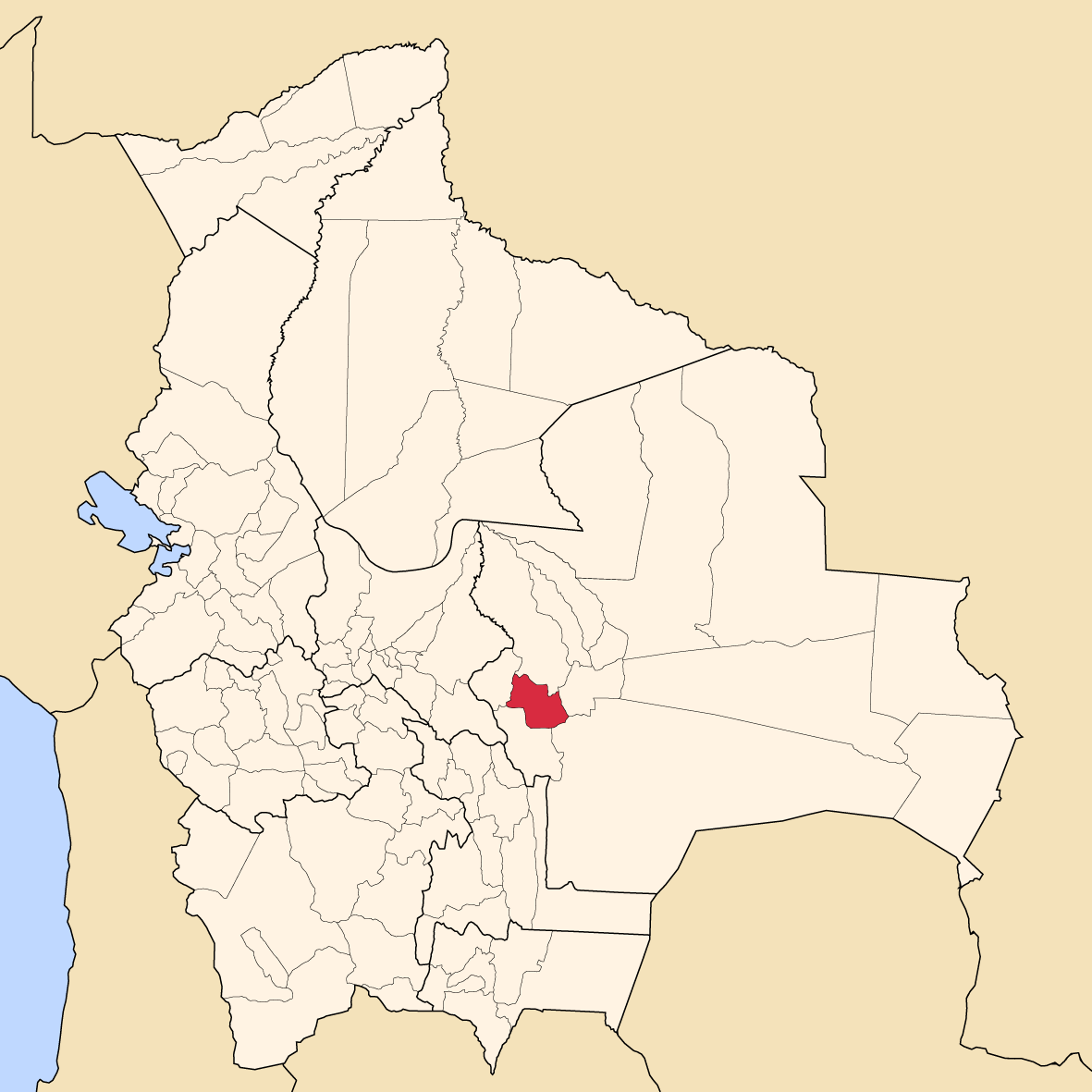 Map of Bolivia showing Florida province, Santa Cruz